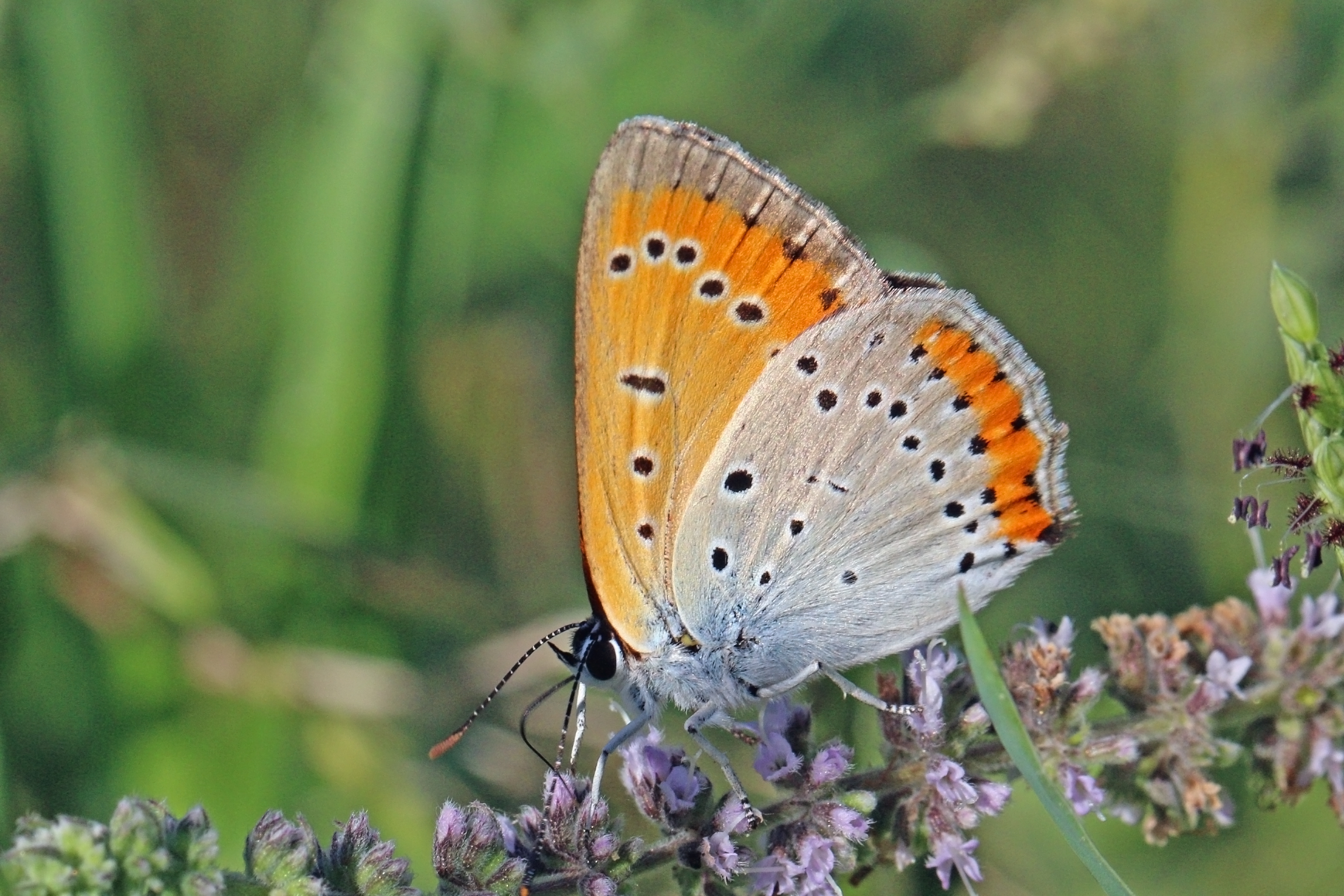 Large copper (Lycaena dispar) male, Lake Kerkini, Greece